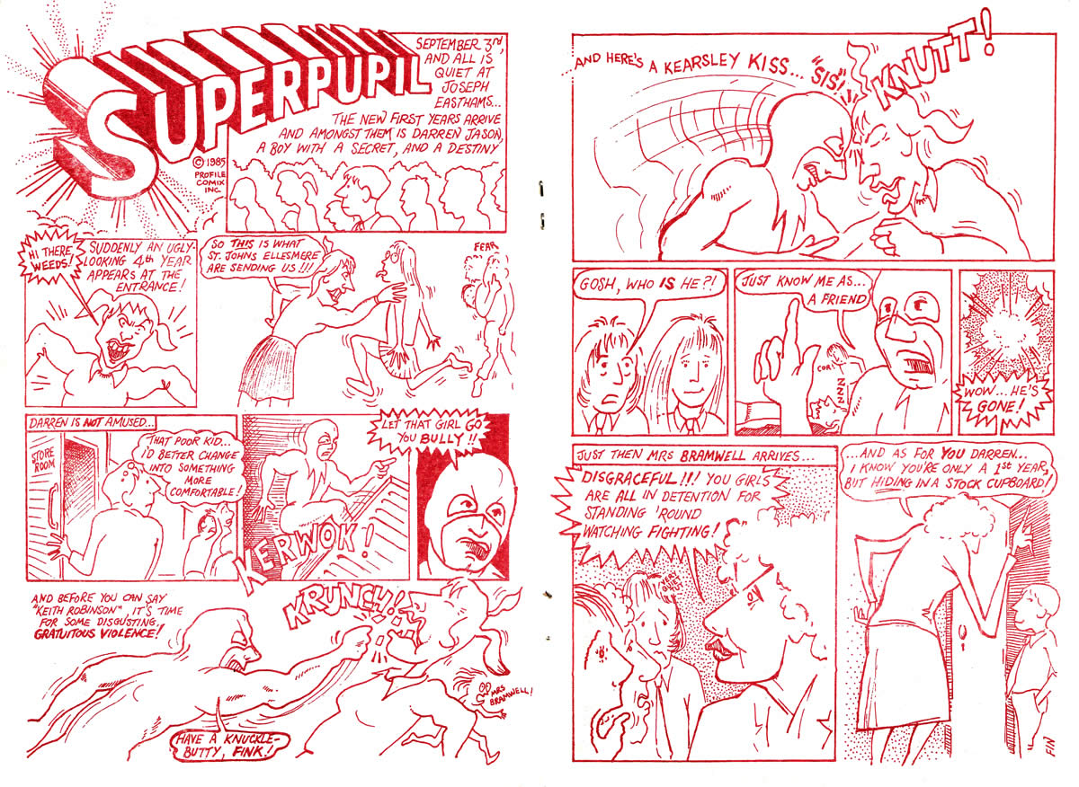 Profile Magazine, Superpupil comic by Keith Bates.